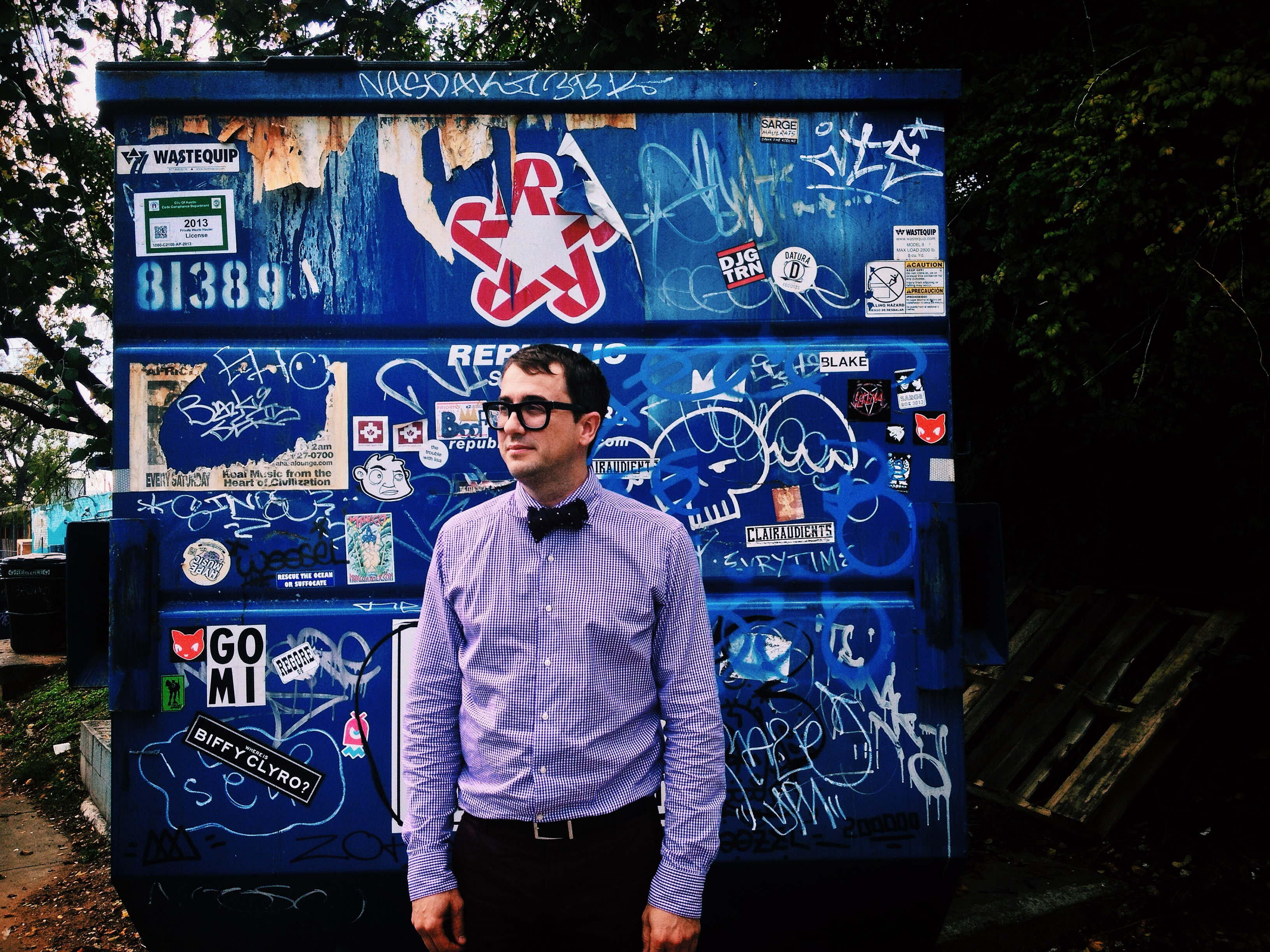 Professor Dumpster Dr. Jeff Wilson